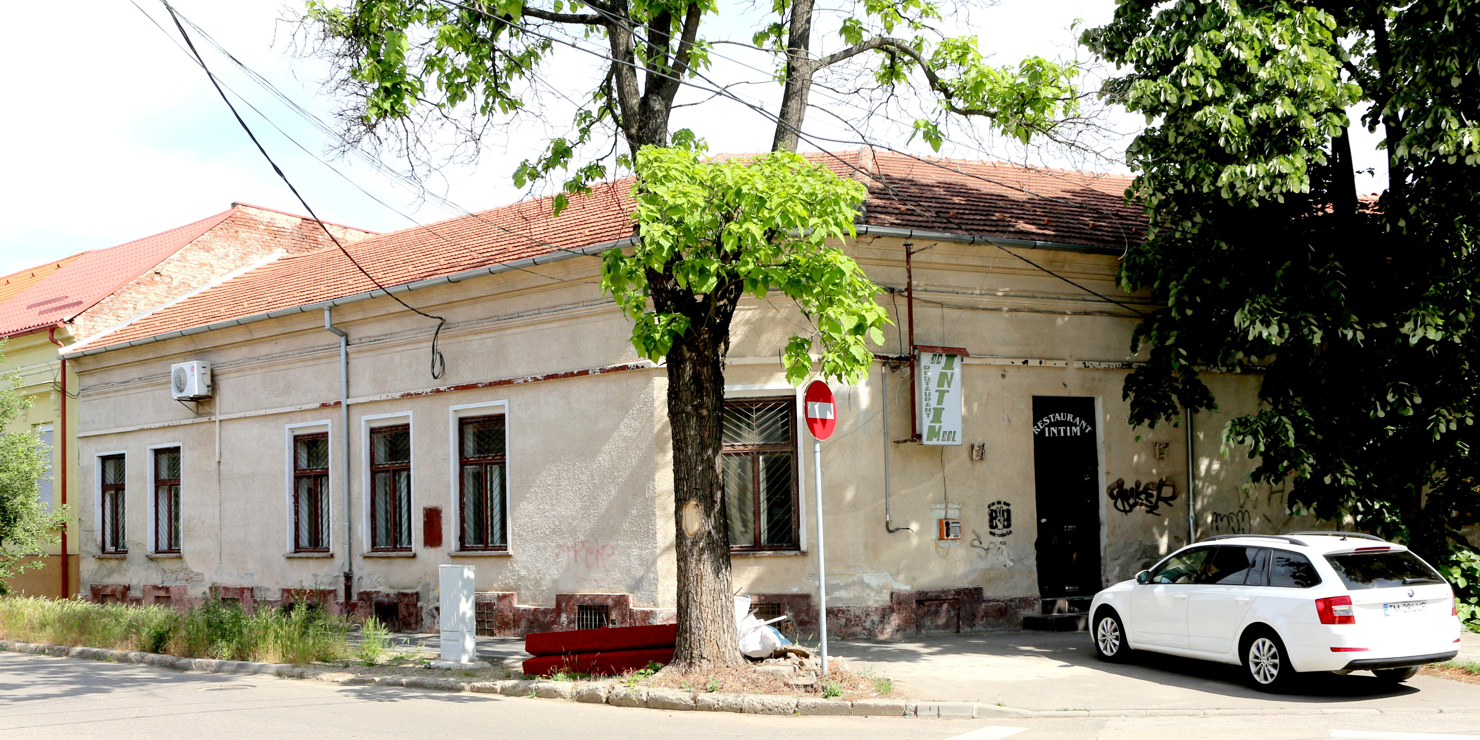 Sári Néni establishment, later the Intim restaurant, Timișoara, Romania, built 19th century..